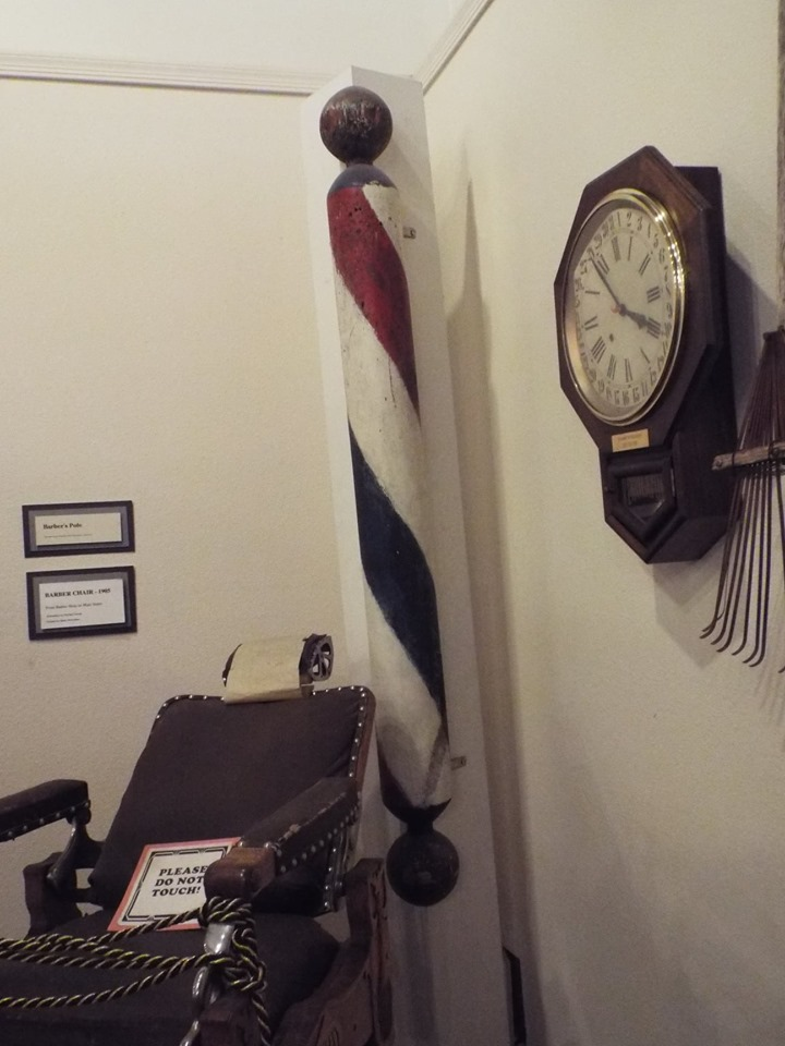 1905 Barber's Pole used in the Barber Shop on Main Street in Scottsdale, Az